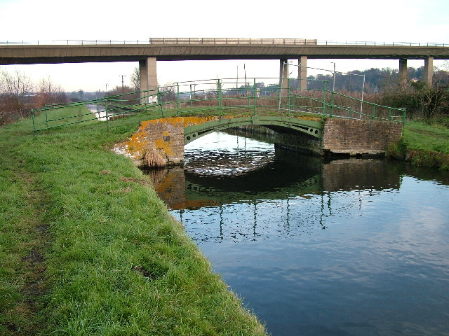 Bridges Ancient & Modern. The A10 Viaduct and old bridge on the Meads Ware